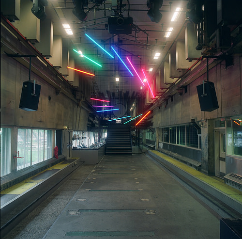 Dancefloor of TrouwAmsterdam.